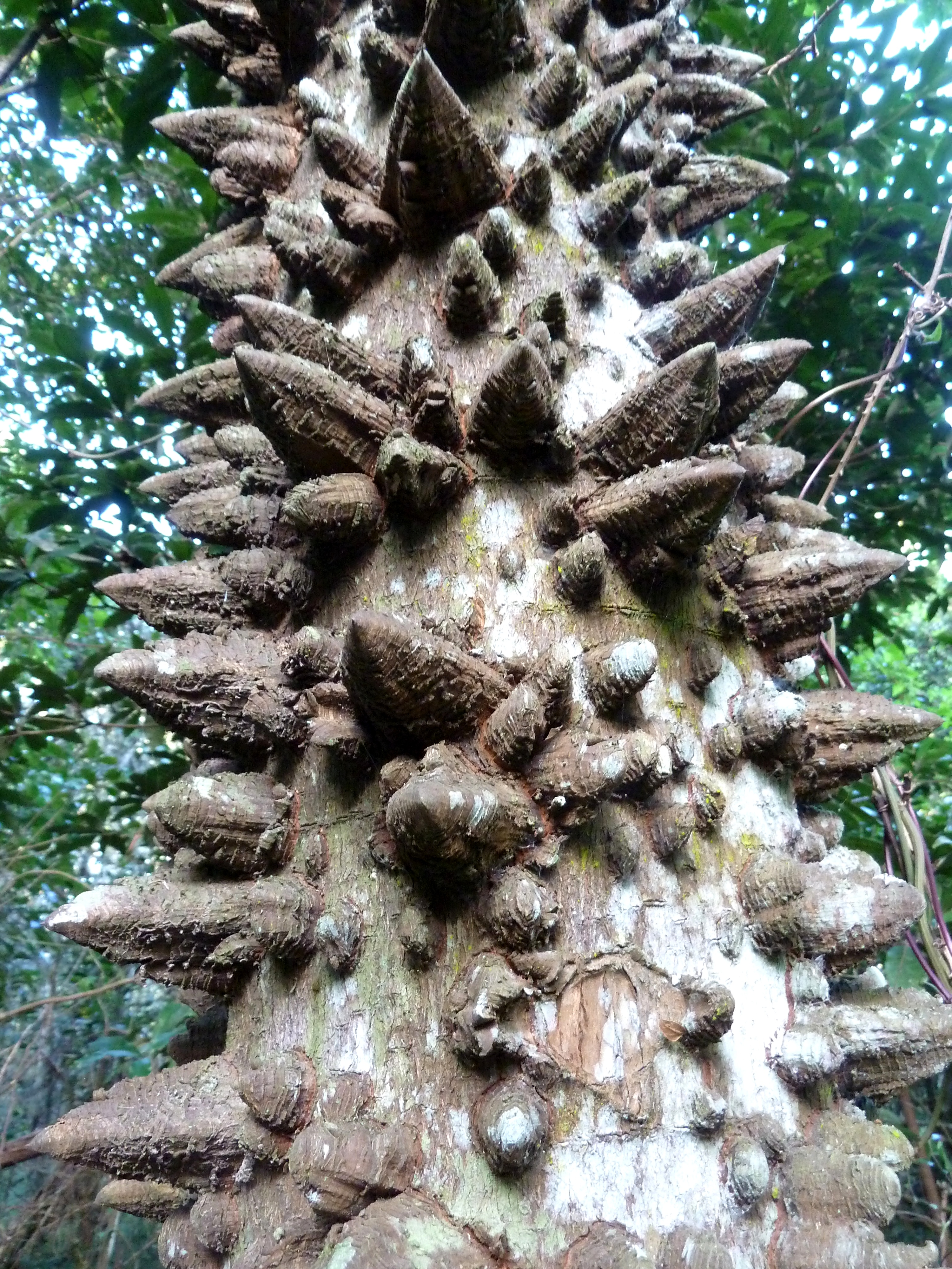 Forest knobwood in Krantzkloof Nature Reserve, KwaZulu-Natal